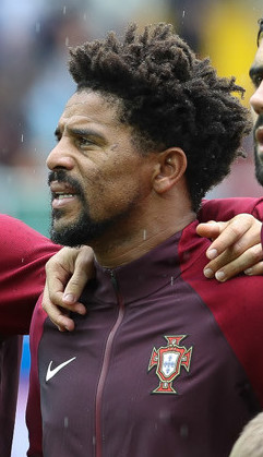 Portugal - Mexico, 2 Jul 2017